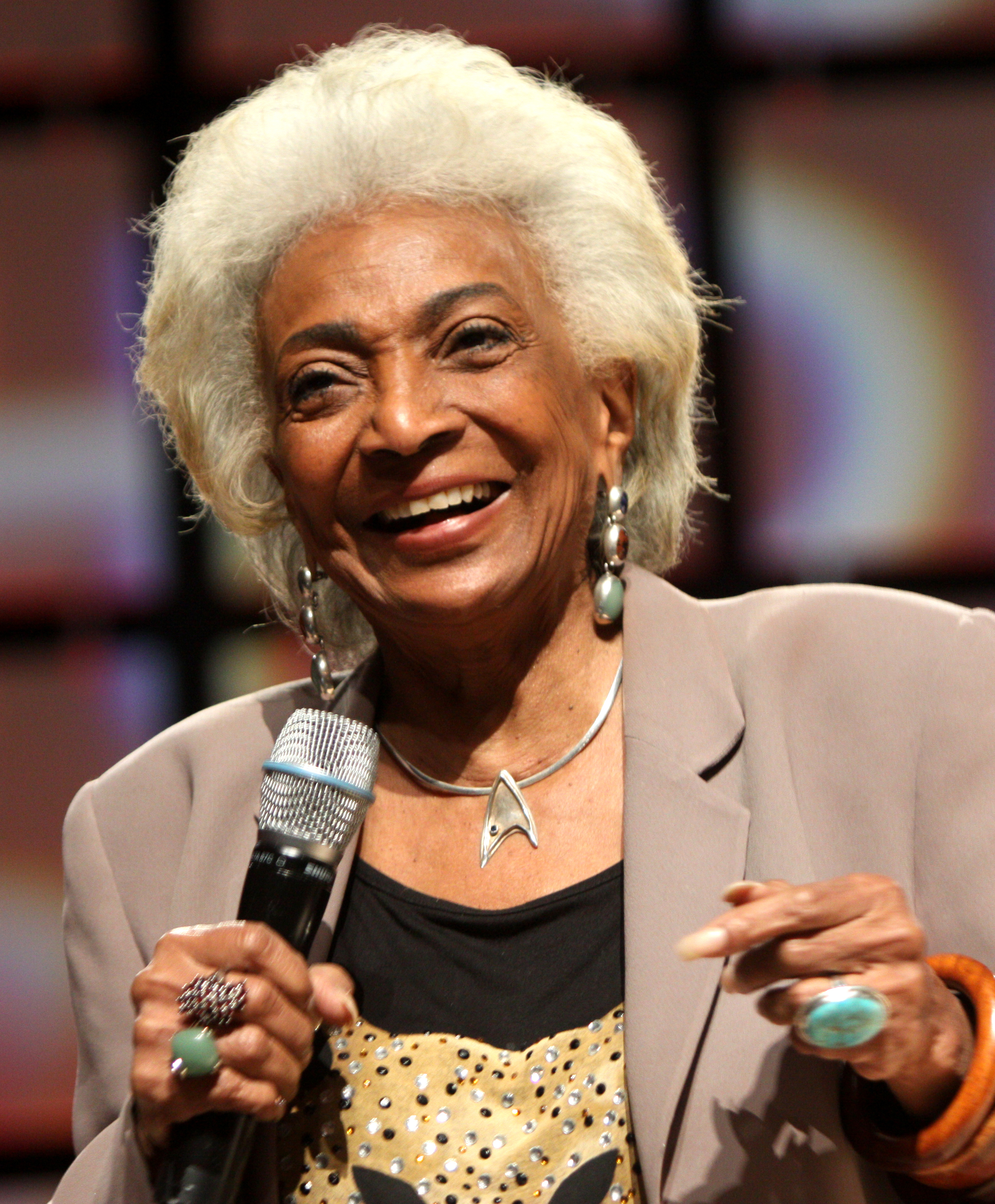 Nichelle Nichols at the 2013 Phoenix Comicon in Phoenix, Arizona.